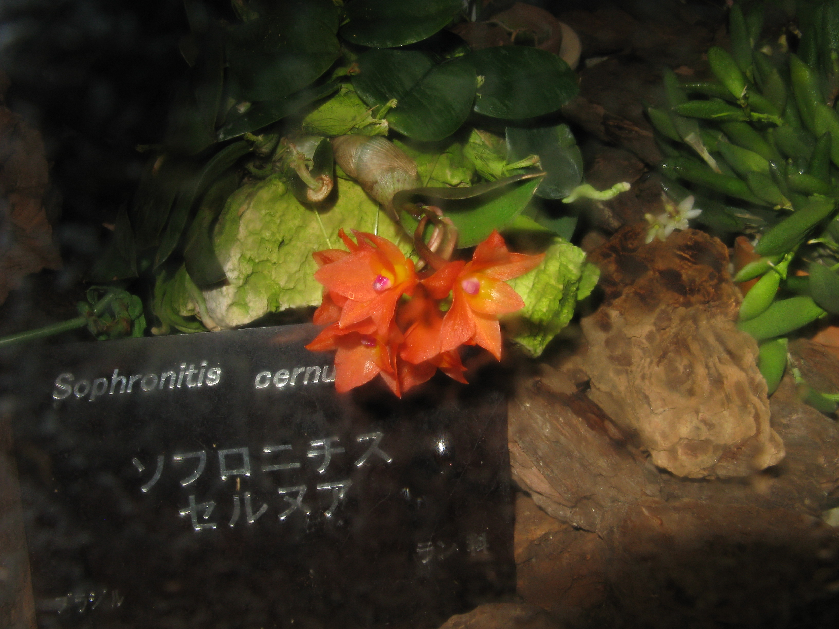 Scientific name Sophronitis cernua Place:Osaka Prefectural Flower Garden,Osaka,Japan